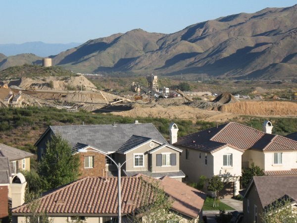 Newly constructed housing tract in Alberhill Ranch, Lake Elsinore. Behind, Pacific Clay Products Company mining.